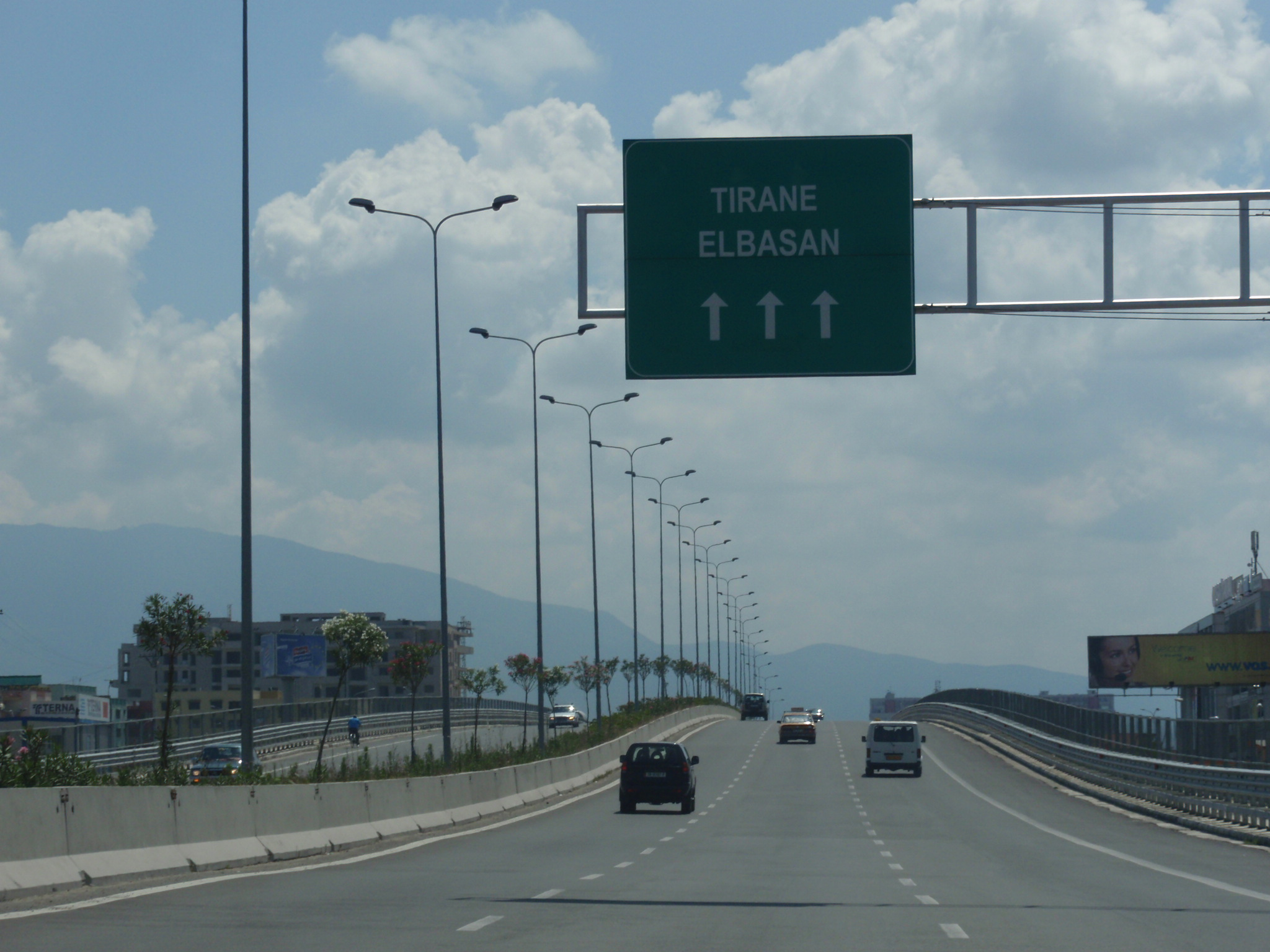 Tirana's Overpass From Durres